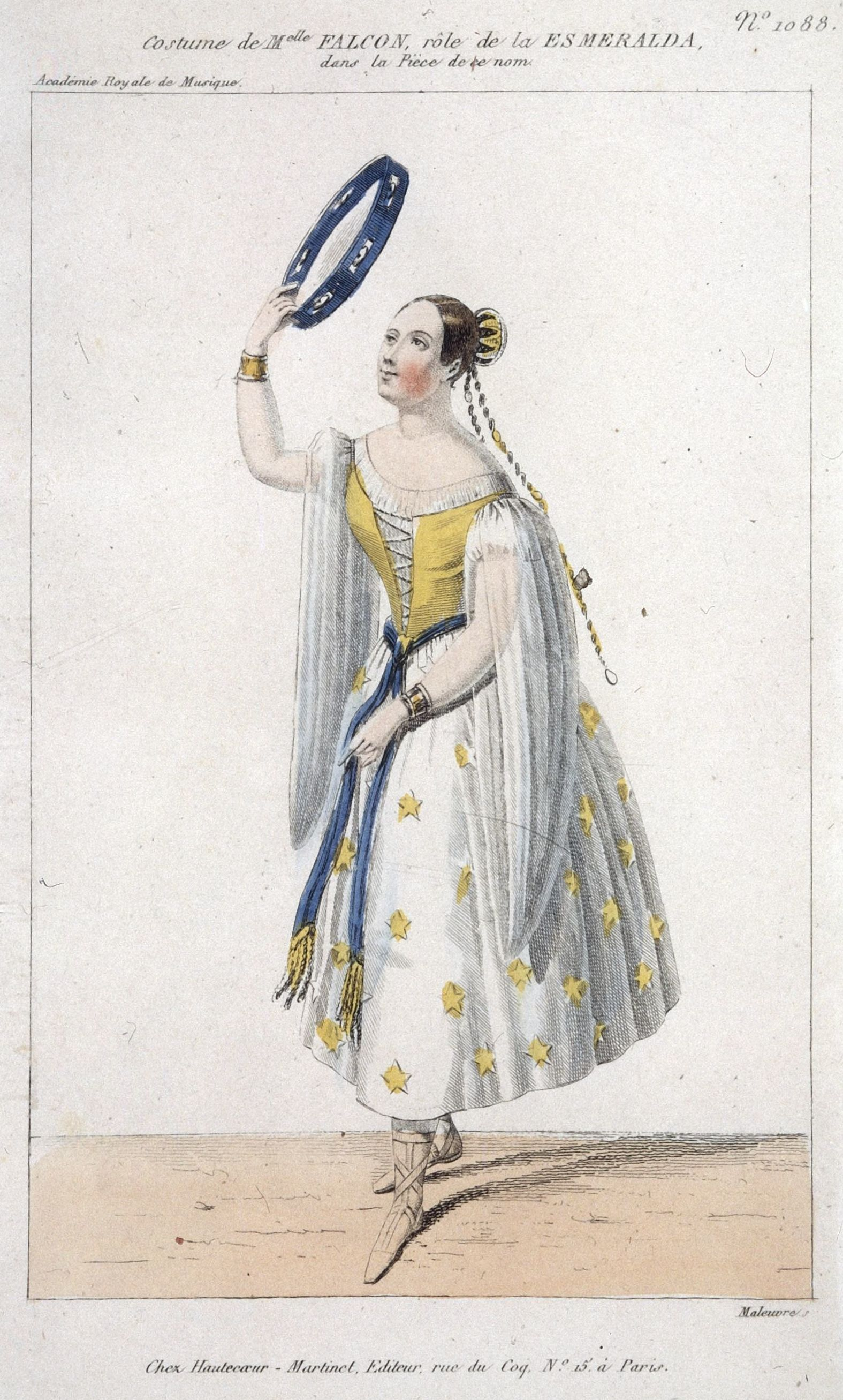 Cornélie Falcon in costume as Esméralda in Louise Bertin's opera La Esméralda; engraving published by Martinet (Paris, 1836)